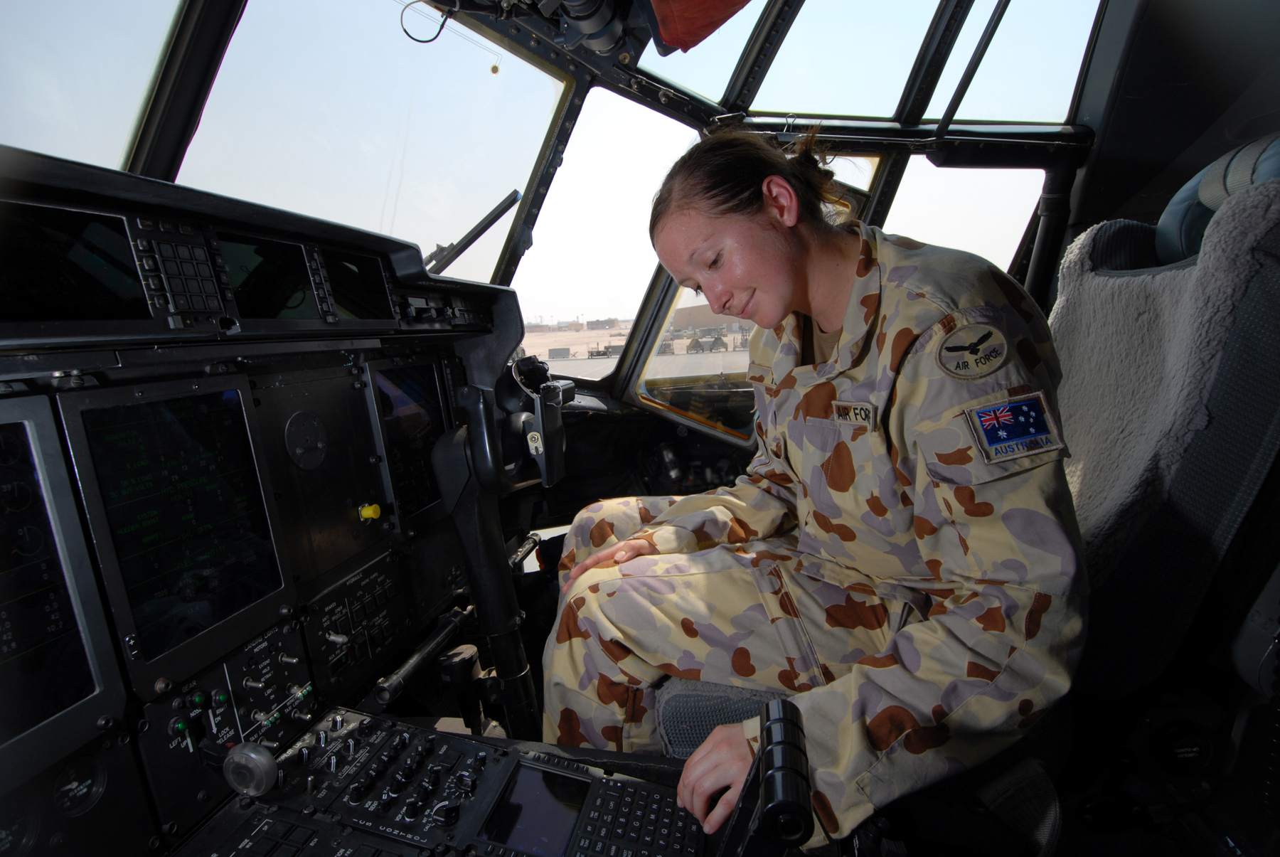 Flying Officer Carlene Heise, No 38 Squadron B-350 King Air pilot, executes pre-flight checklists on a C-130J-30 Hercules here, Aug. 27. The RAAF's role is to provide intra-theatre combat airlift support for the Australian Defense Force and coalition elements throughout the area of operations. Flying Officer Heise is a native of Townsville, North Queensland, Australia.